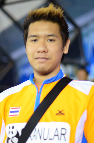 Pakkawat Vilailak